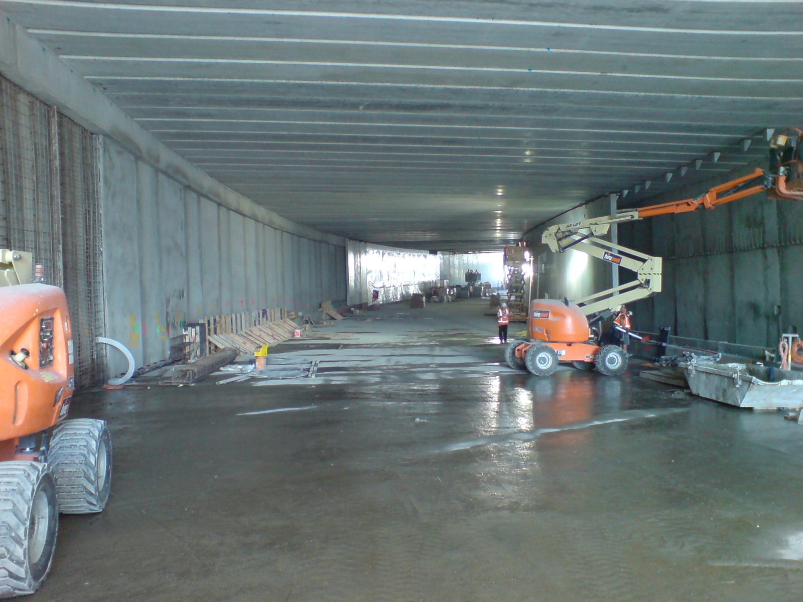 Looking southwards through the Victoria Park Tunnel in Auckland, New Zealand, from near the northern portal. Coordinates are a bit approximate.